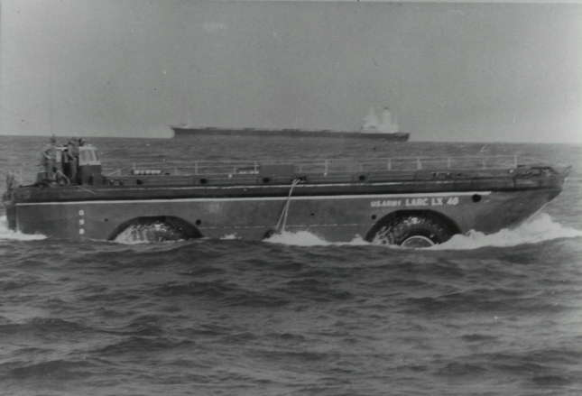 A LARC-LX (BARC) amphibous vehicle at Sea.